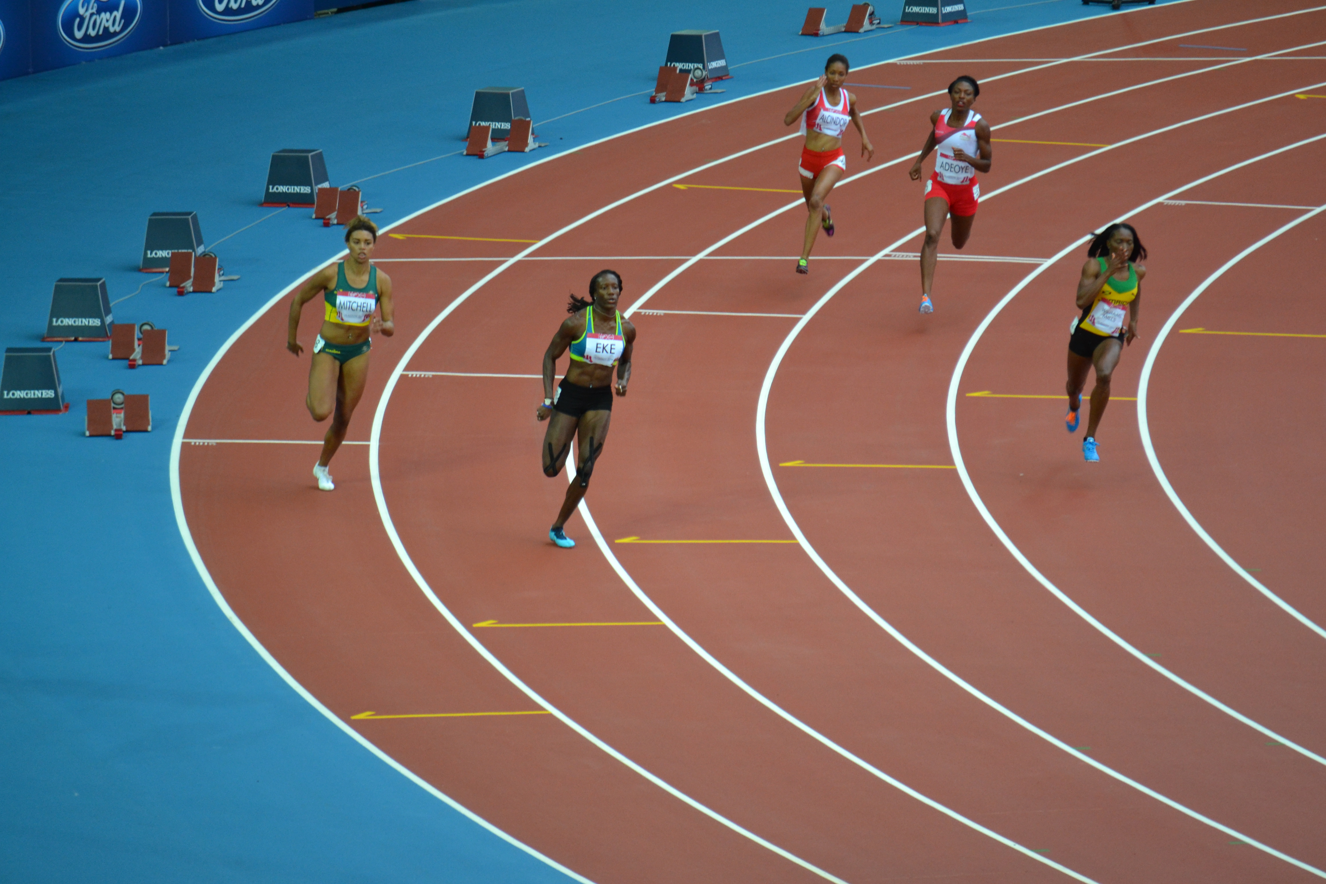 Glasgow 2014 - Athletics Women's 400 metres Heat 6. Morgan Mitchell (AUS), Catherine Eke (SLE), Aurelie Alcindor (MRI), Margaret Adeoye (ENG), Novlene Williams-Mills (JAM)